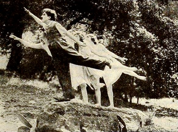 Still from the American film Sunnyside (1919) with Charlie Chaplin and the wood nymphs, on page 8 of the August 1919 Film Fun. The nymphs, one of which is directly behind Chaplin in this still, were played by (uncredited) Olive Ann Alcorn, Olive Burton, Willie Mae Carson, and Helen Kohn per the Internet Movie Database.